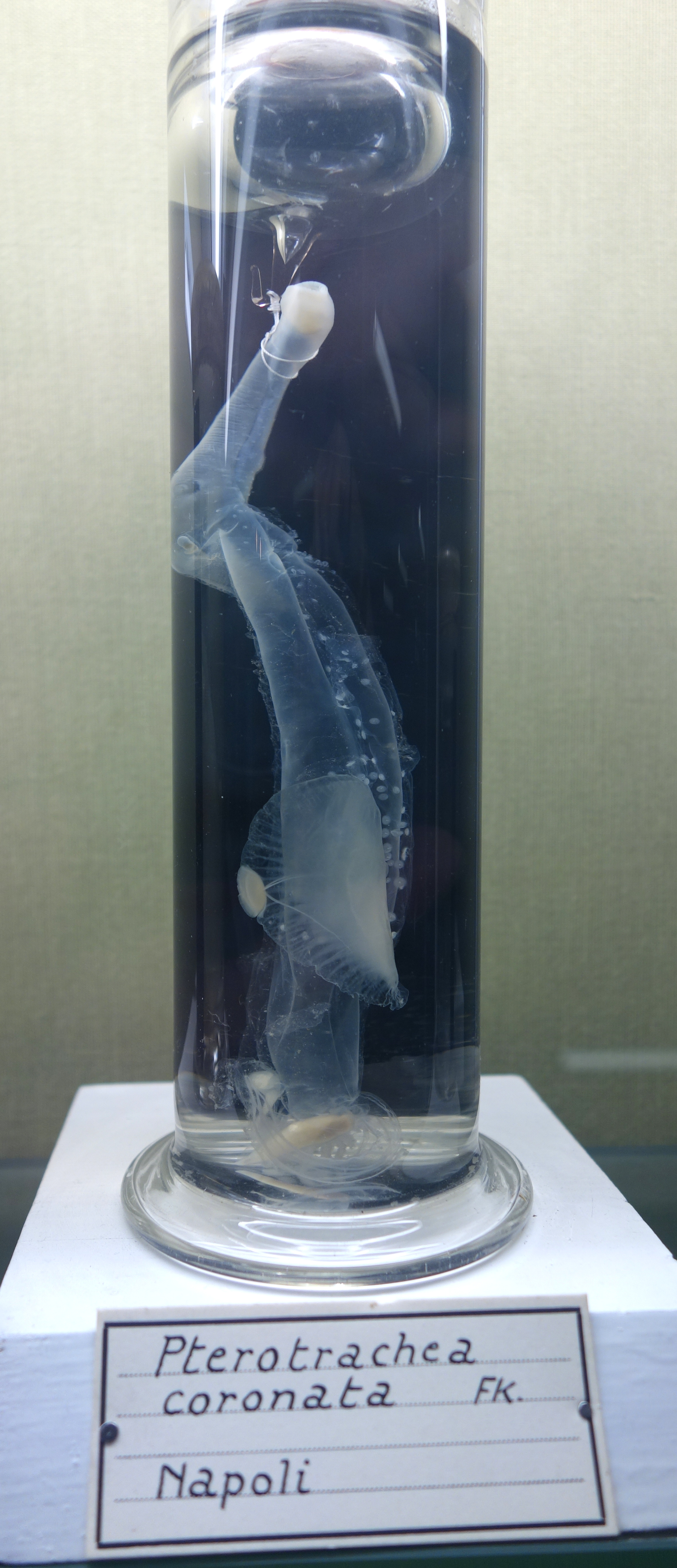 Exhibit in the Museo Civico di Storia Naturale di Genova, Via Brigata Liguria, 9, 16121, Genoa, Italy.